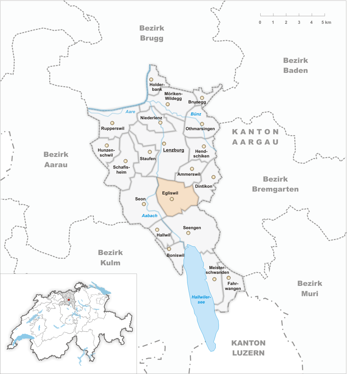 Municipality Egliswil